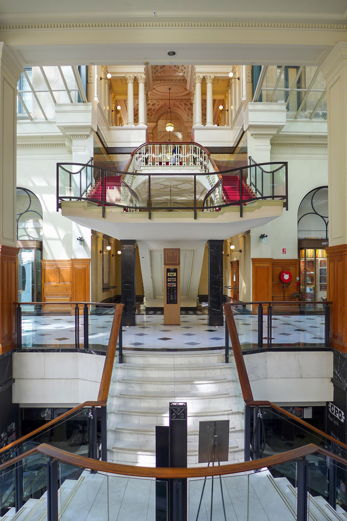 General Post Office Sydney Stairs